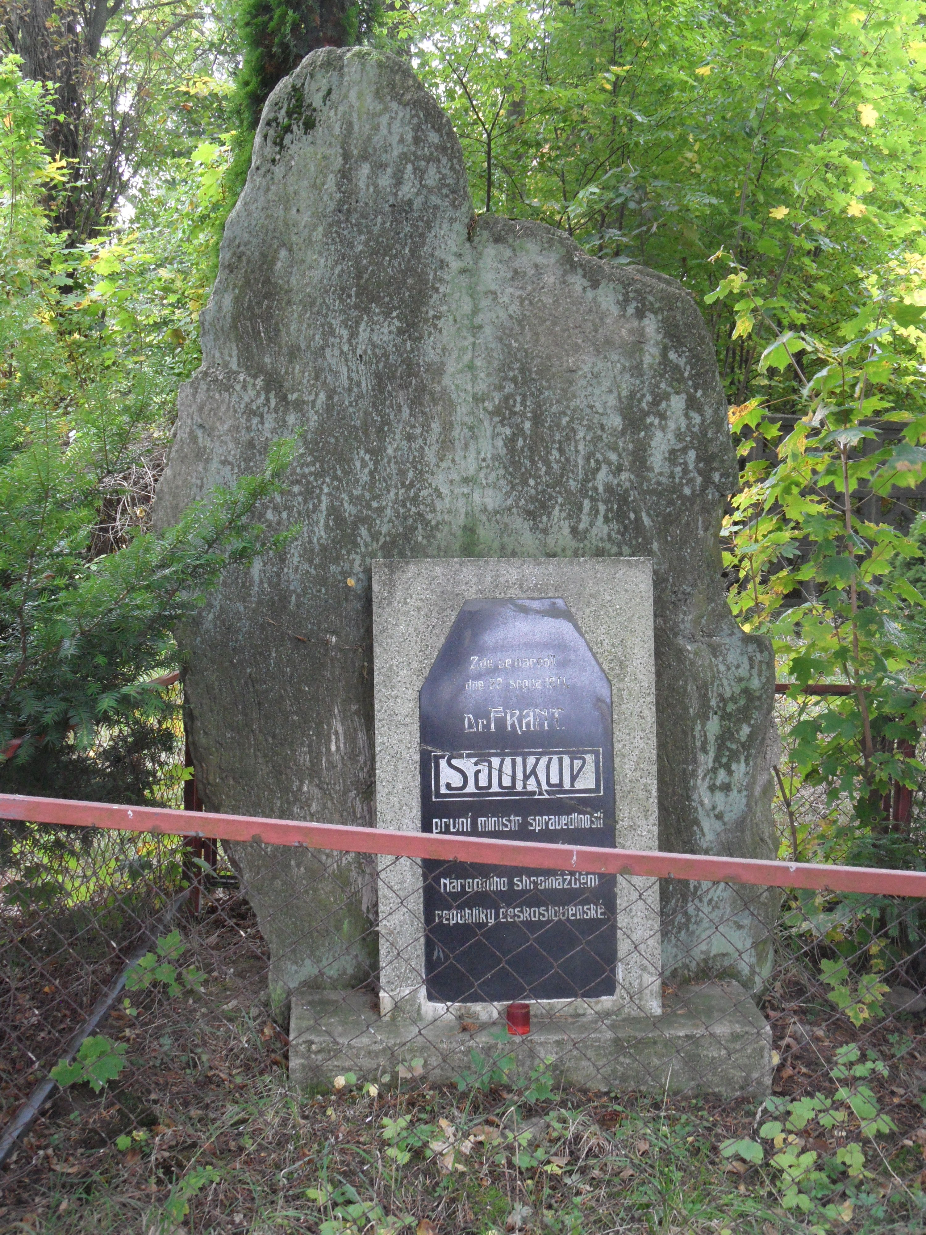 Kamenná Lhota B. Memorial of JUDr. František Soukup, 1st Ministry of Justice and Chairmain of Senate, Kutná Hora District, the Czech Republic.